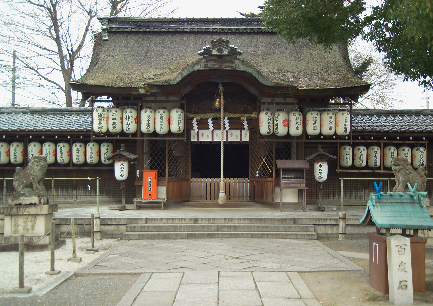 This is the Agata Shrine in the city of Uji, Kyoto prefecture. I took the photo and contribute my rights in the file to the public domain; individuals and organizations retain rights to images in the file.